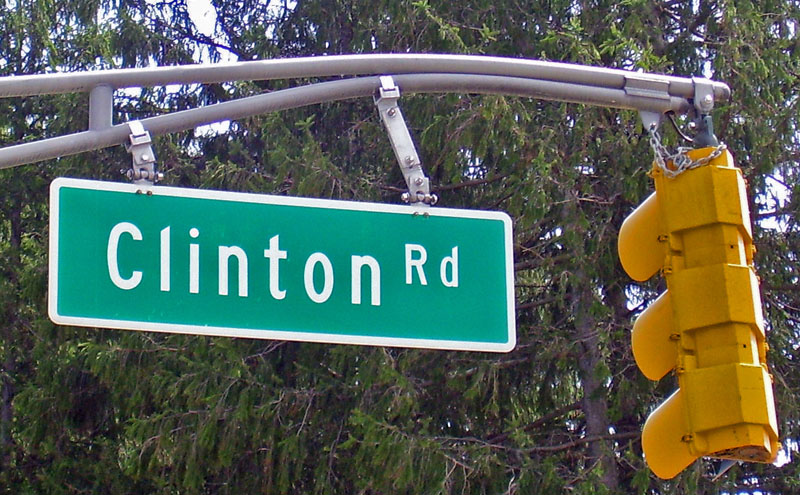 The frequently-photographed sign for Clinton Road at Route 23, its southern end. Photogrpahed by Daniel Case 2006-04-16